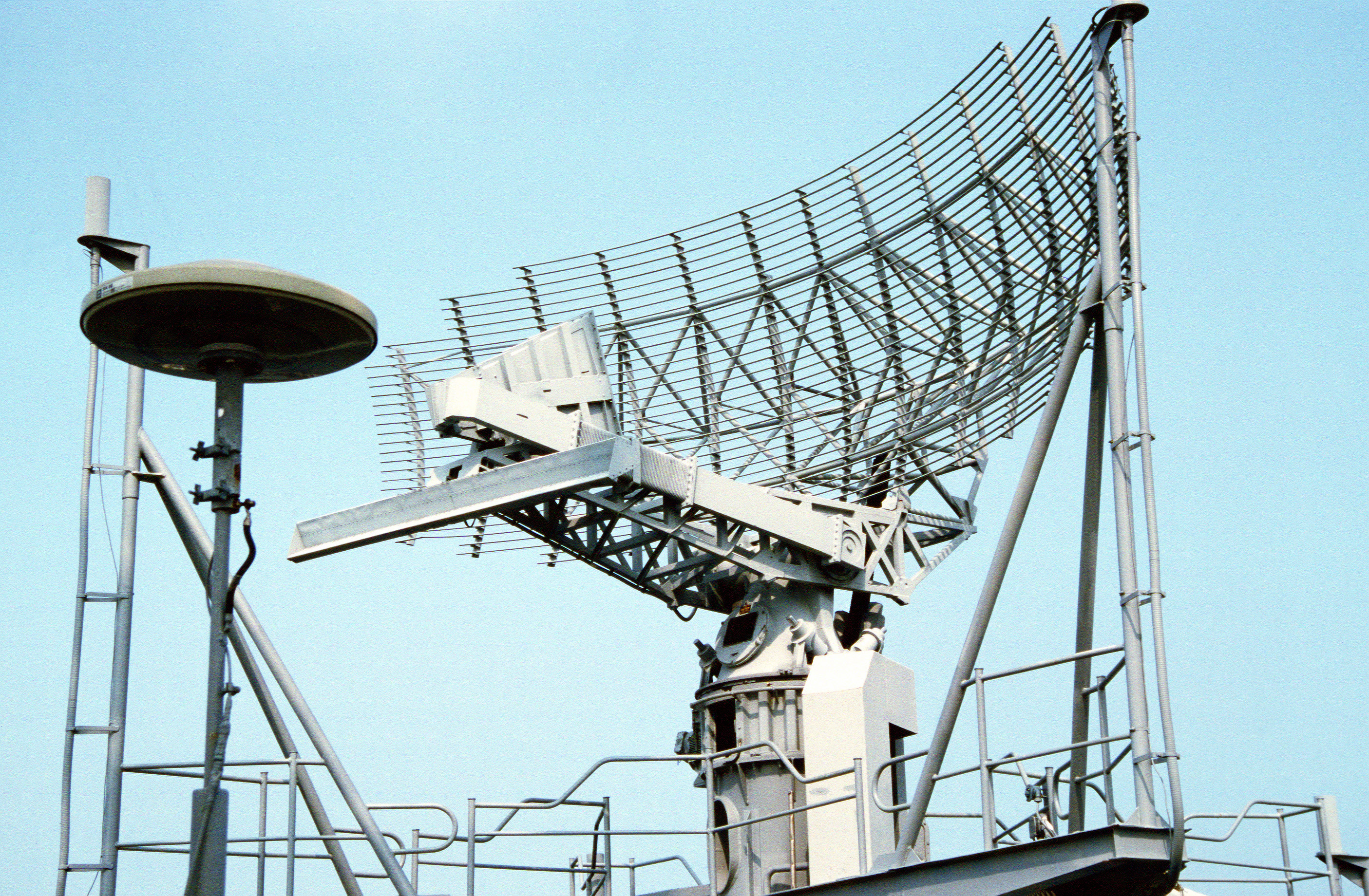 A view of the SPS-49 air search radar antenna mounted atop the lattice mast aboard the nuclear-powered aircraft carrier USS ABRAHAM LINCOLN (CVN 72). Location: HAMPTON ROADS, VIRGINIA (VA) UNITED STATES OF AMERICA (USA)